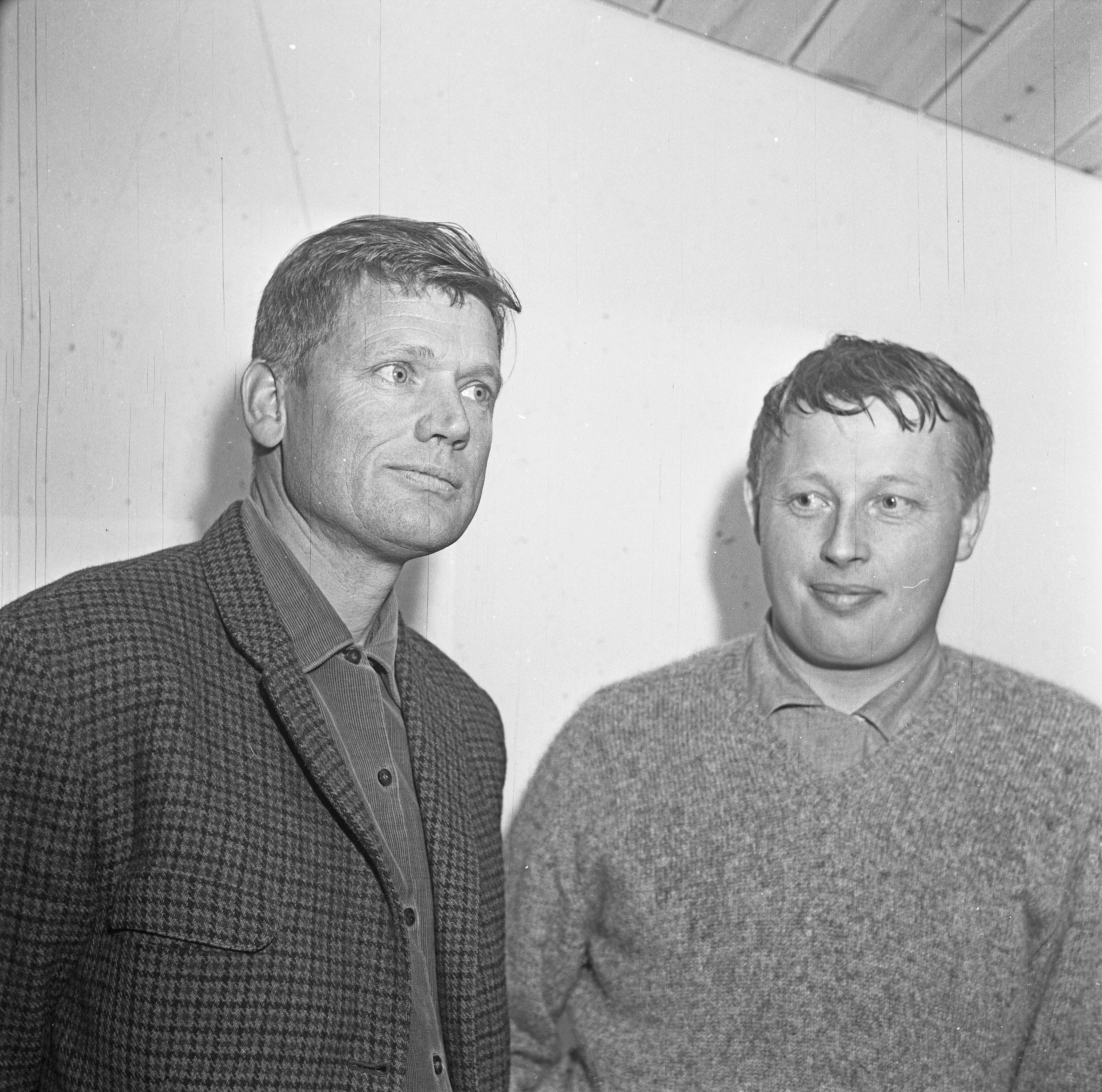 Format: 120 mm sort/hvitt negativ Dato / Date: 1967 Fotograf / Photographer: Eirik Sundvor (1902 - 1992) Sted / Place: Bergen, Hordaland Wikipedia: Studentbyen Natland Bergens Tidende: Arkitekten som ikkje vil pensjonera seg (04.11.2011) Eier / Owner Institution: Trondheim byarkiv, The Municipal Archives of Trondheim Arkivreferanse / Archive reference: Tor.H43.B78.F16014